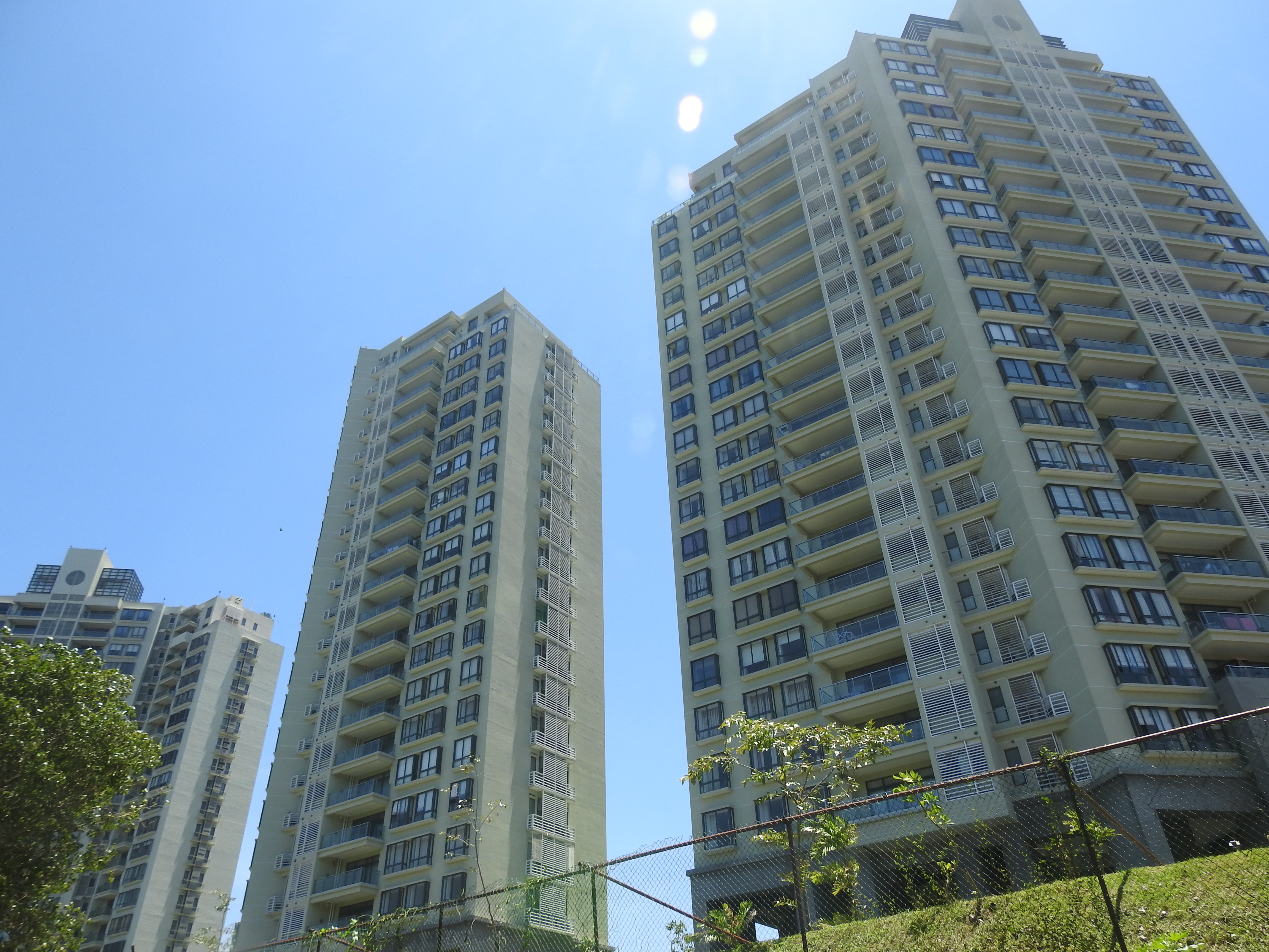 Photos of current/future skyscrapers (and its surroundings) in Colombo, taken by User:Rehman and User:Azeez as part of a photowalk project by Wikimedia Community User Group Sri Lanka. The photowalk covered most of the tallest structures in Colombo that are either completed or under construction. Further information on the subject(s) of the photograph can be found in the category/ies of this file.